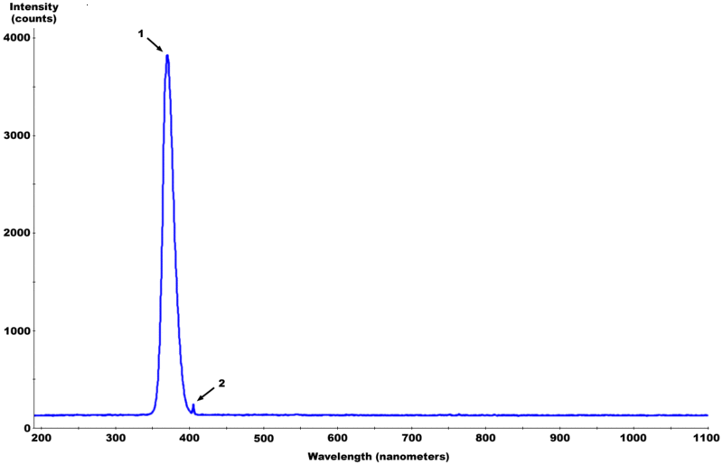 Spectrum of light from a fluorescent black light with peaks labelled. The spectrum was taken with an Ocean Optics HR2000 spectrometer [1]. The spectrometer used appears to be about ~.3 to .8 nm off, judging from the location of known peaks. Fluorescent black lights are usually made the same way as regular Wikipedia:fluorescent lamps except the clear glass used in normal fluorescent lights is replaced with "Wood's glass", which is a glass that has been doped with nickel oxide, making it a deep blue/purple color and blocking virtually all visible light above ~400 nm. Also, the phosphor used on the inner surface of the tube differs from the typical multi phosphor blend used in normal fluorescent lights to produce visible light and in black lights is either europium doped strontium fluoroborate or europium doped strontium tetraborate to produce a peak near 370nm, as in this lamp, or a lead doped barium silicate to produce a peak near 351 nanometers. The phosphor fluoresces due to irradiation by short-wave ultraviolet light (UV-C) produced by mercury vapor in the tube. A small amount of the violet light produced by the 404 nm mercury spectral line leaks through the glass filter, causing the second small peak at 404 nm. More info:[2].